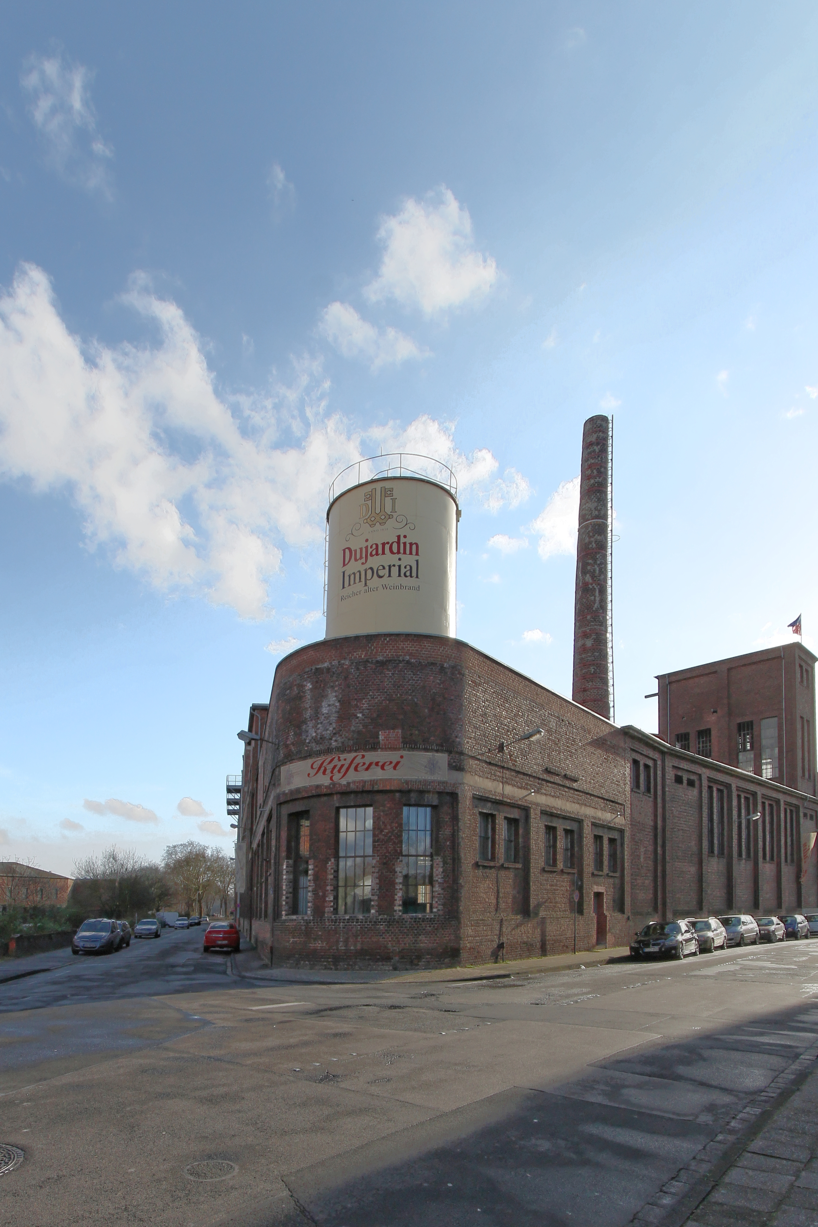 Krefeld (North Rhine-Westphalia, Germany) – Uerdingen – Dujardin Brandy Distillery